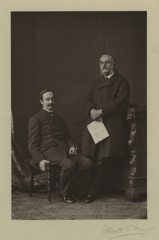 Sir John Strachey (1823-1907) and Sir Richard Strachey